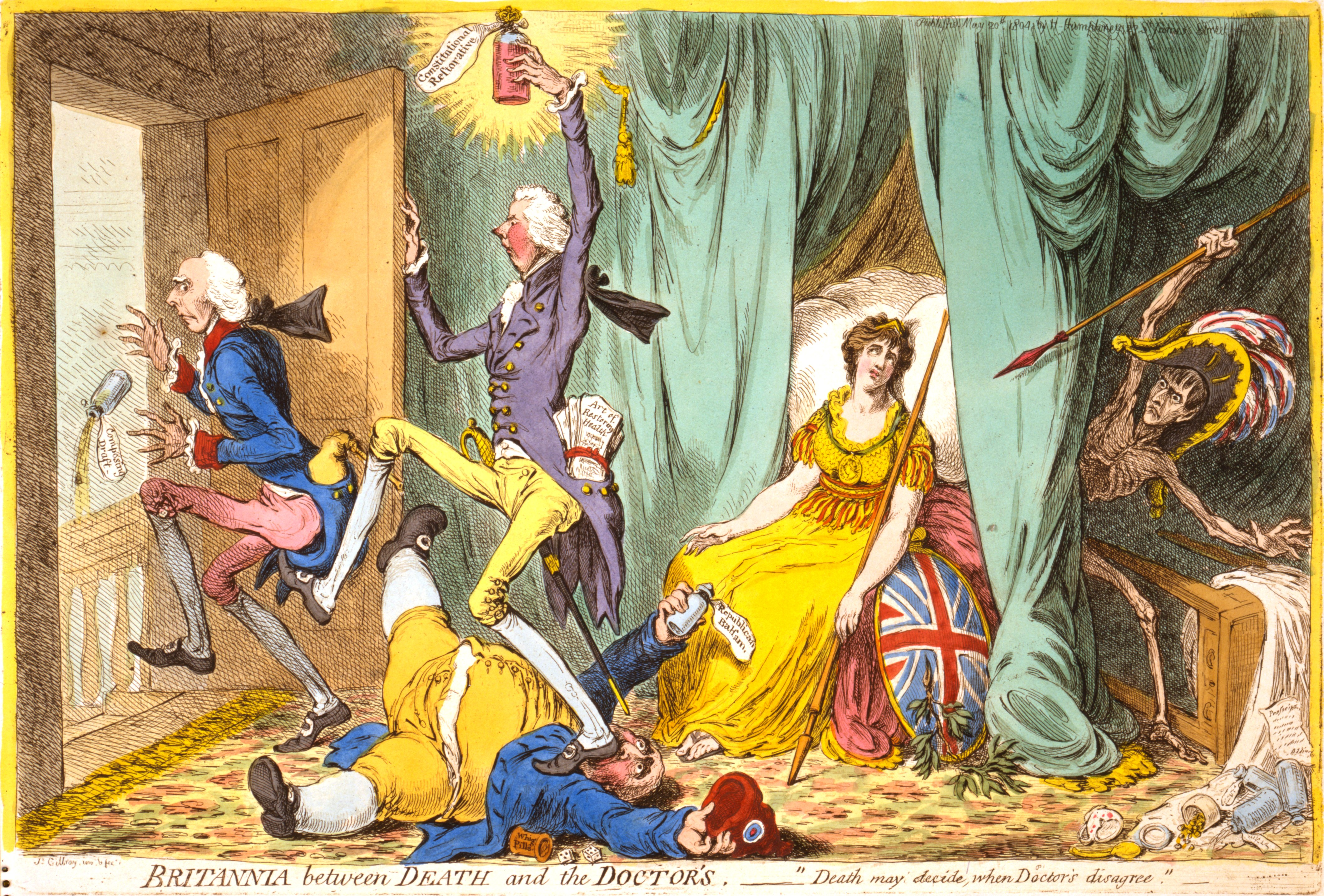 Britannia between Death and the Doctor's Js Gillray inv. & fect. SUMMARY: A faint Britannia seated on bed with three "doctors," William Pitt kicking Henry Addington and stepping on Charles James Fox. The figure of death, with Napoleon's head, strides from behind bed curtains. MEDIUM: 1 print : etching, hand-colored. CREATED/PUBLISHED: [London] : pubd. by H. Humphrey, 1804 May 20th. According to Wright & Evans, Historical and Descriptive Account of the Caricatures of James Gillray (1851, OCLC 59510372), p. 243, "On Pitt's return to office in 1804. Doctor Addington's course of treatment has nearly thrown his patient into the power of political death, personified in her arch-enemy Napoleon, and she is only relieved by the sudden return of her old physician. Pitt is represented as kicking Addington out of the House, and has overturned a phial in Addington's hand, labelled 'Composing Draft.' Pitt holds a bottle of 'Constitutional Restorative' in his hand, and 'The Art of Restoring Health' is hanging out of his pocket. He is treading upon Fox's prostrate body. By Fox's side are 'Whig Pills,' and in his uplifted hand is 'Republican Balsam.'"